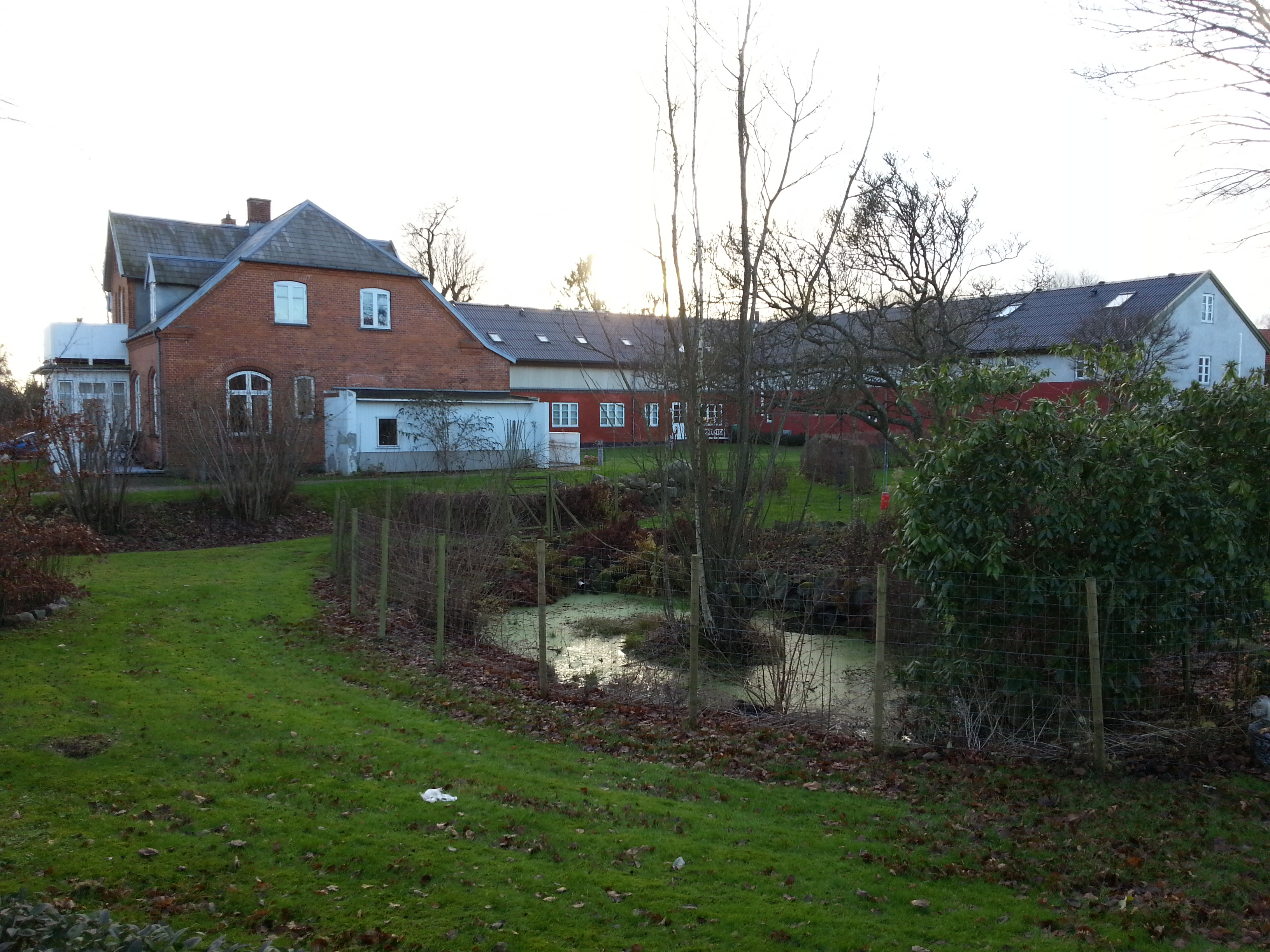 Old farm in Mørdrup (Espergærde), Denmark 3